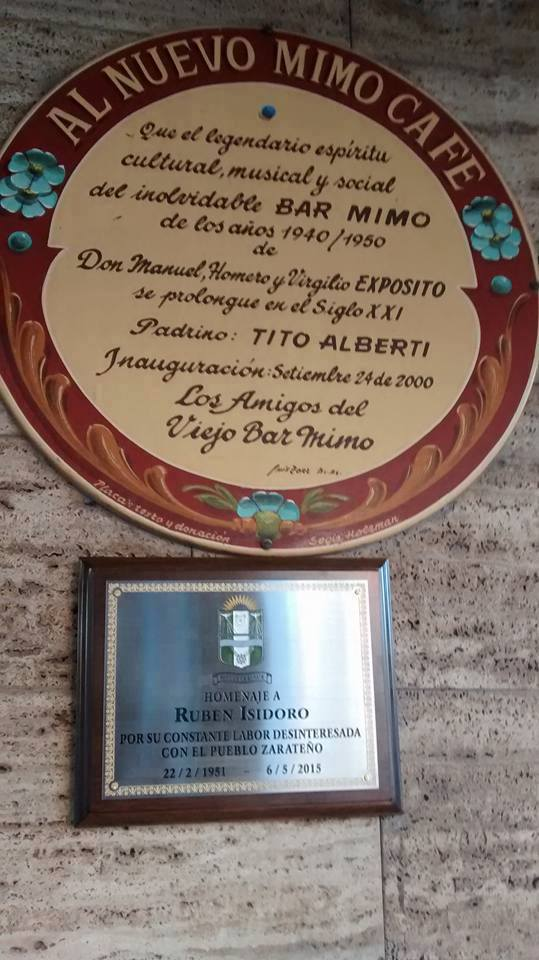 Placa Memorial